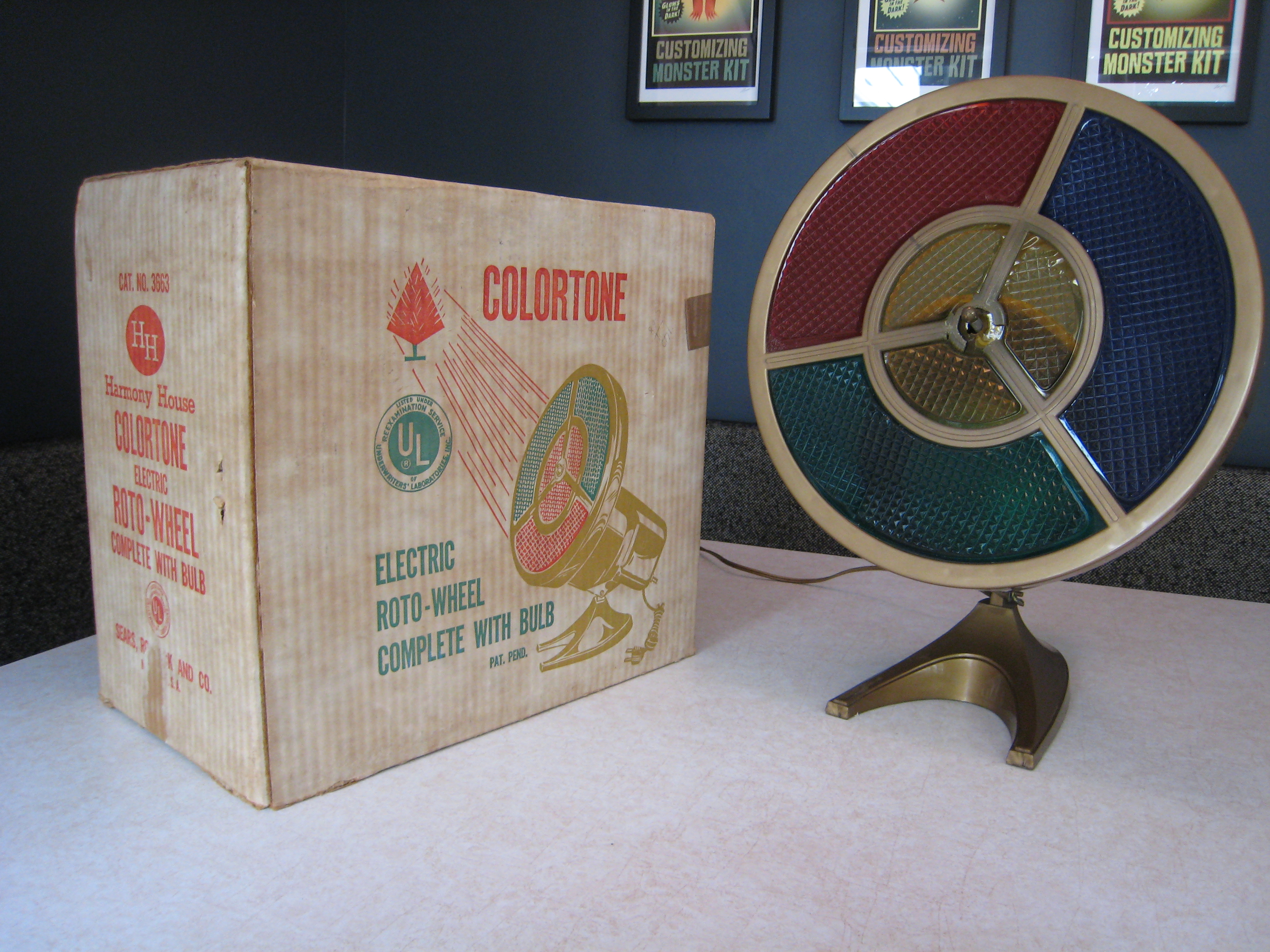 A Colortone, electric "roto-wheel". Used for projecting colored light onto an aluminum Christmas tree.